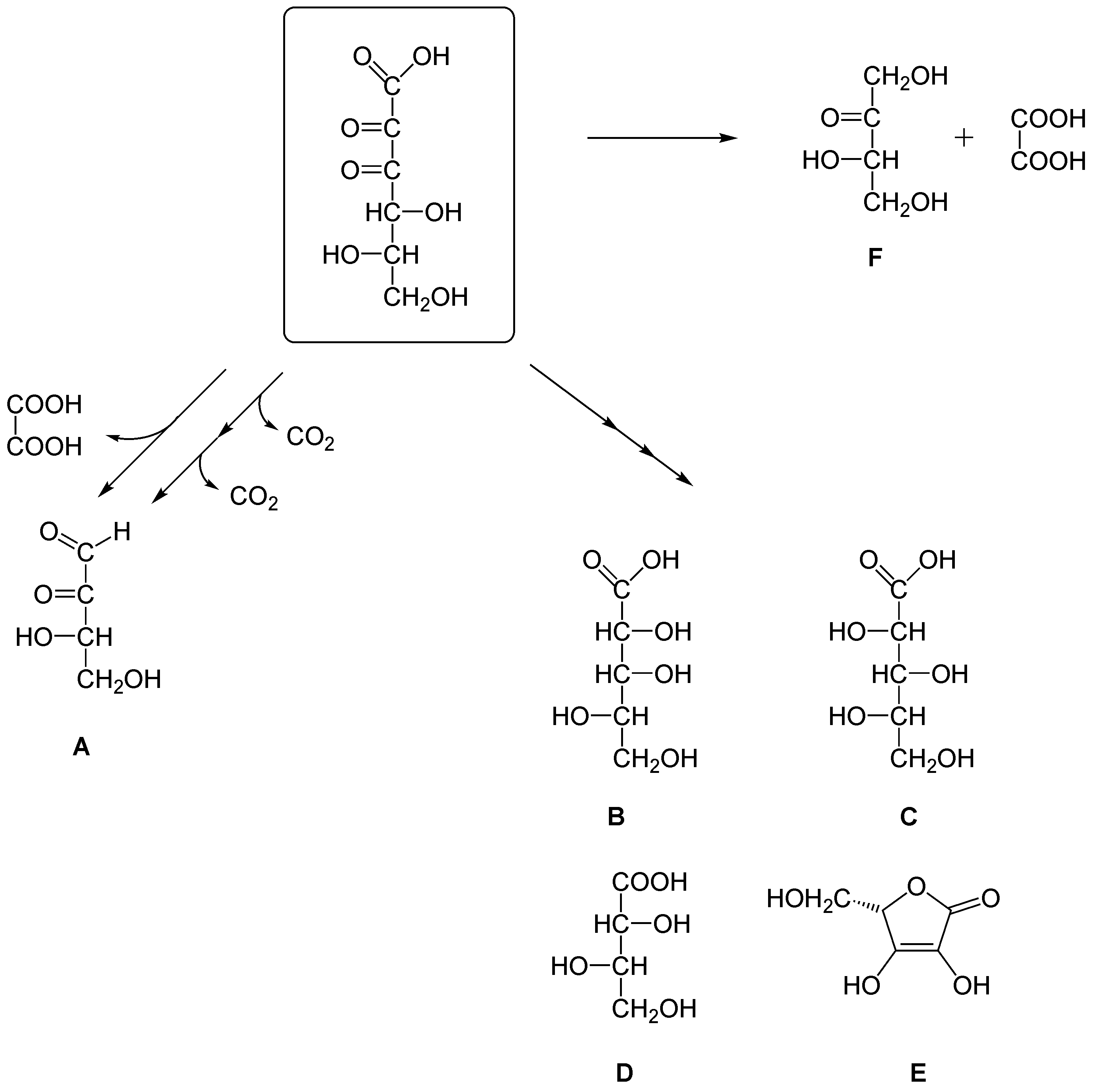 Degradation of 2,3-Diketo-L-gulonic acid